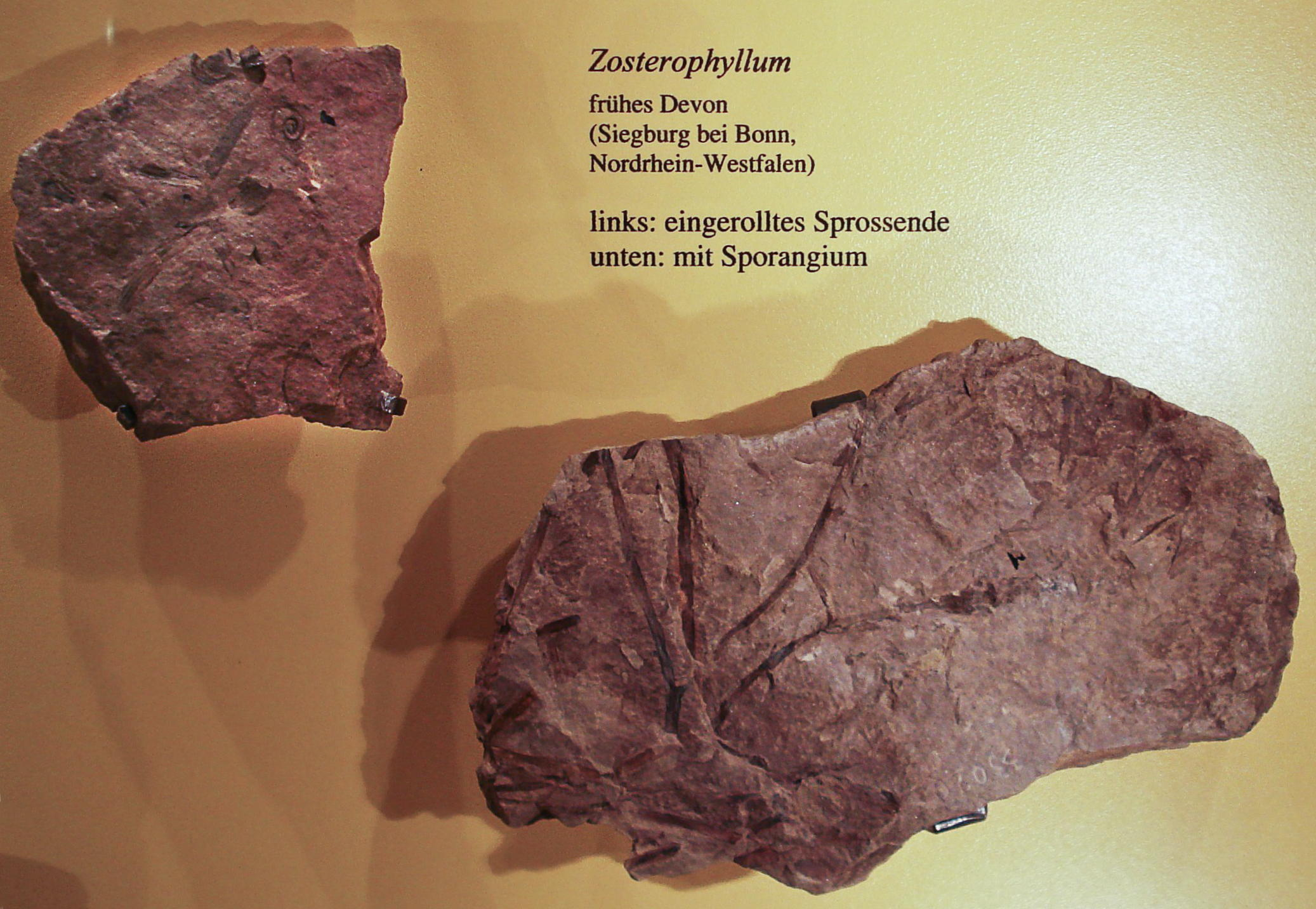 Fossil of Zosterophyllum an extinct plant